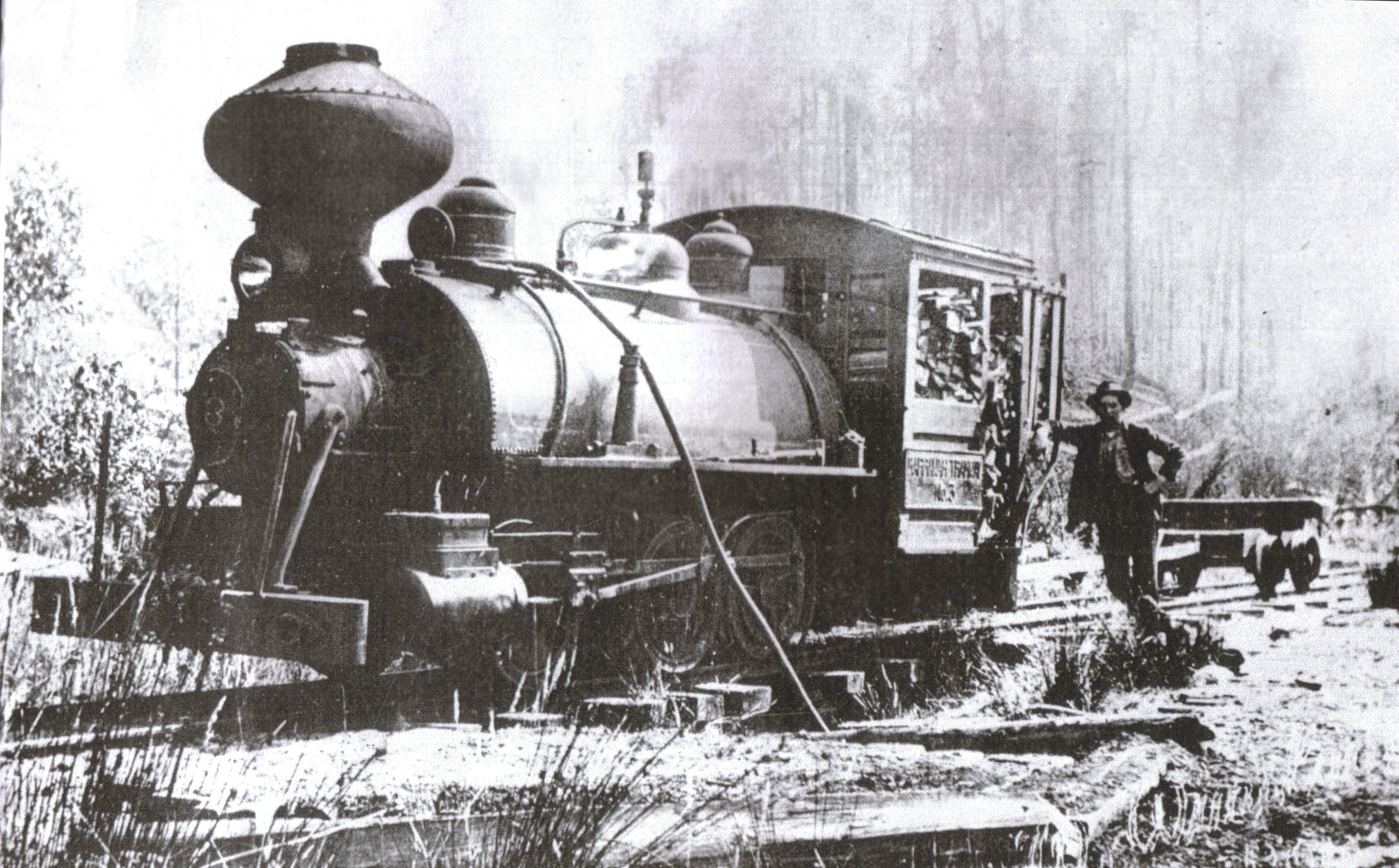 Historic photo of Tasmanian locomotive "Big Ben"